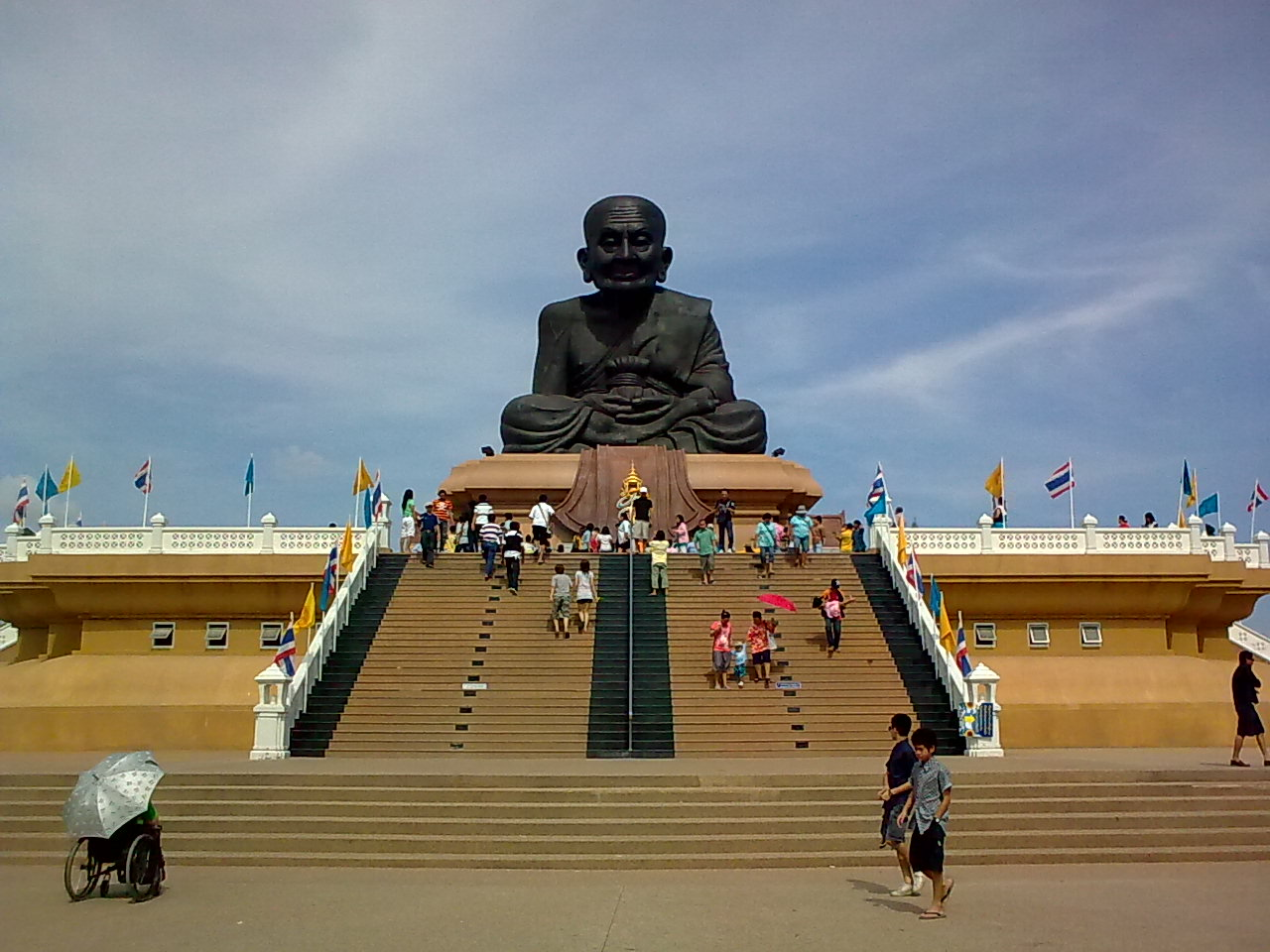 The biggest statue of Luang Pu Thuat (born 2125 BE (1582 CE), died 2225 BE (1682 CE)) at Wat Huai Mongkhon, Hua Hin, Prachuap Khiri Khan, Thailand